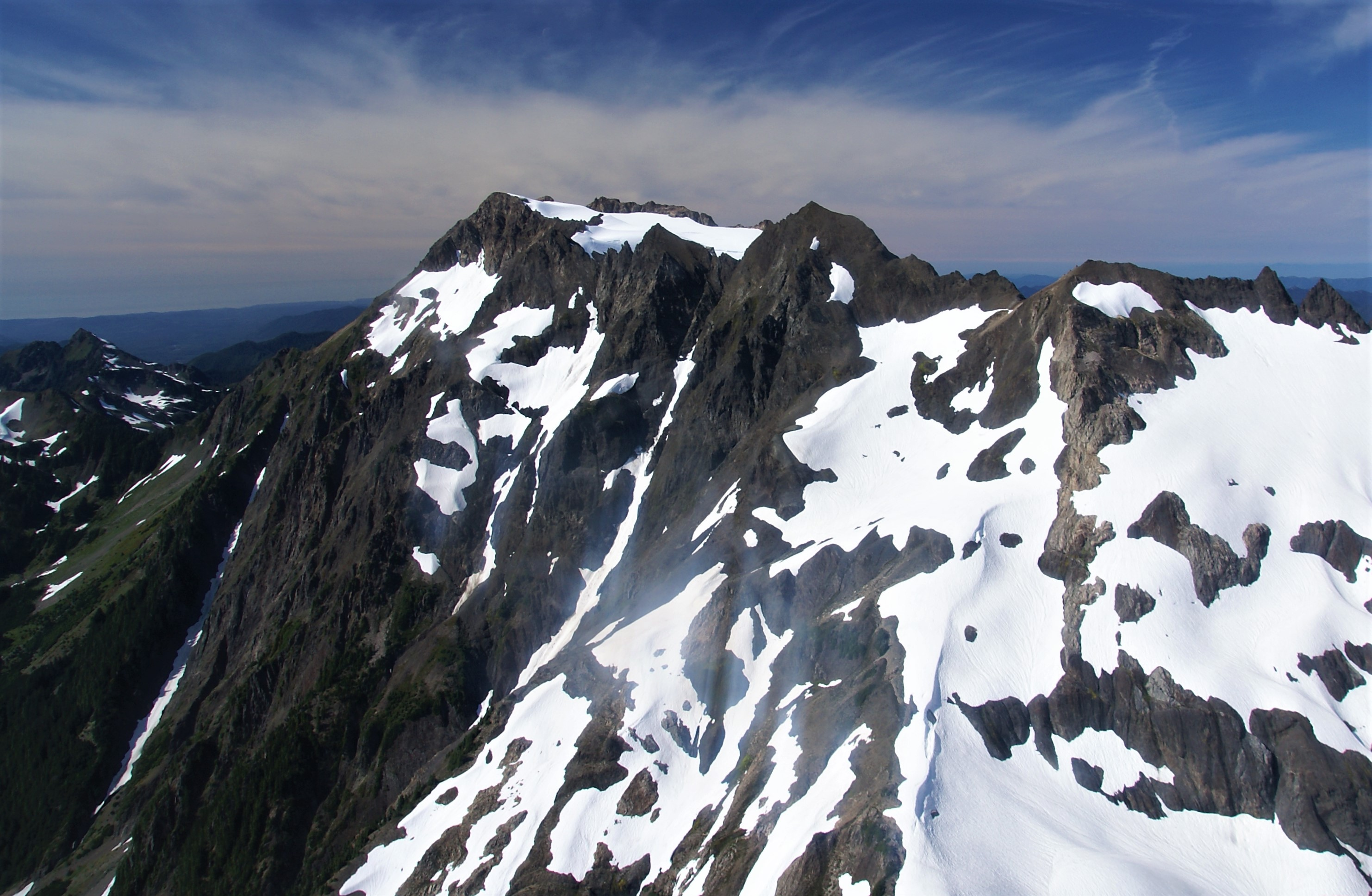 Aerial view of Mount Tom from ESE